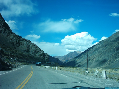 Picture of the route near Uspallata. I took this picture on 16 Feb 2006.